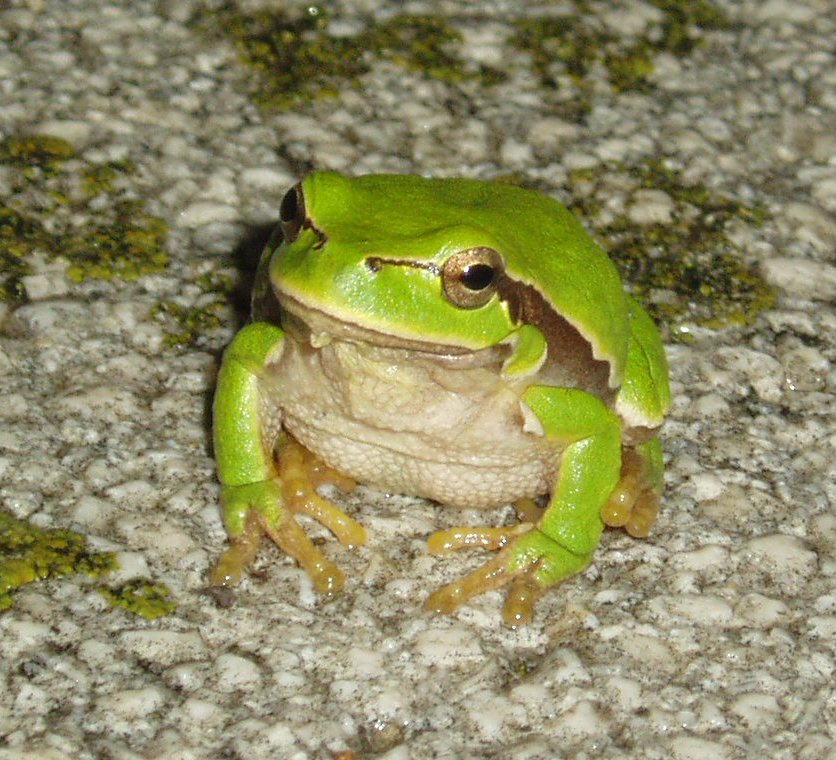 San Antonio Frog